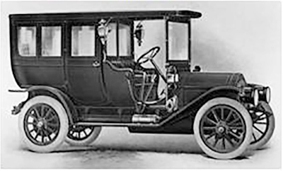 A side view of the Jonz Auto Co. 1910 Taxi Car with body by The Kahler Co.